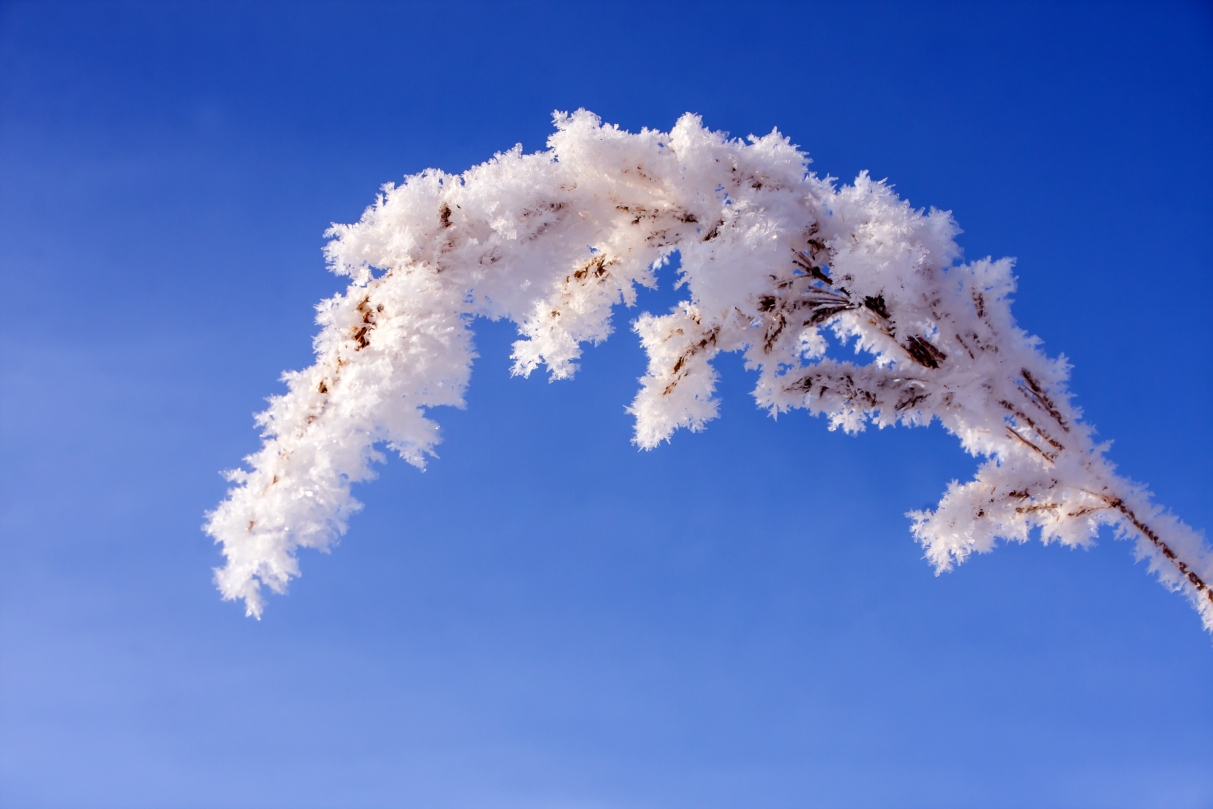 Ear with rime. Galthult, Hässleholm Municipality, January 2013.